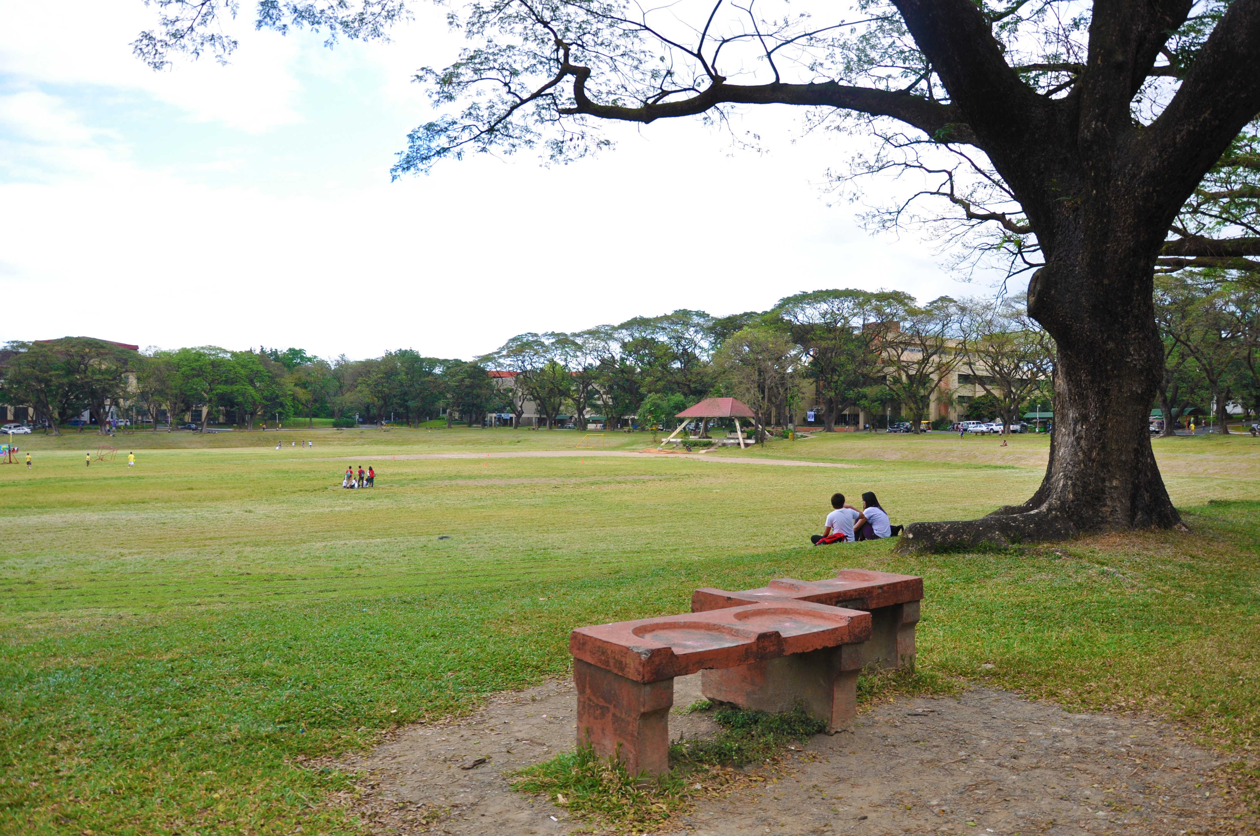 Photo of the Sunken Garden in 2012.